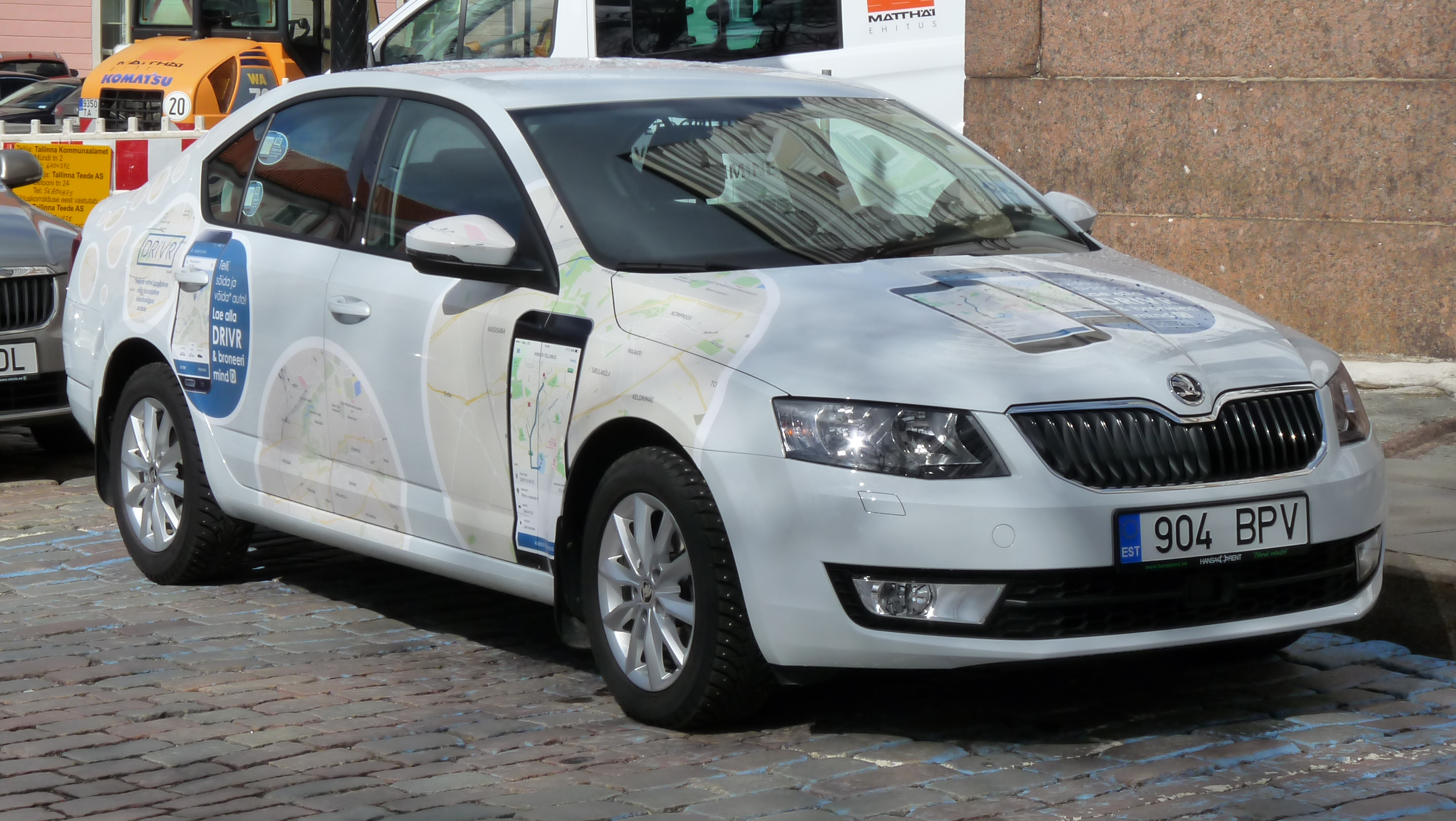 Škoda Octavia